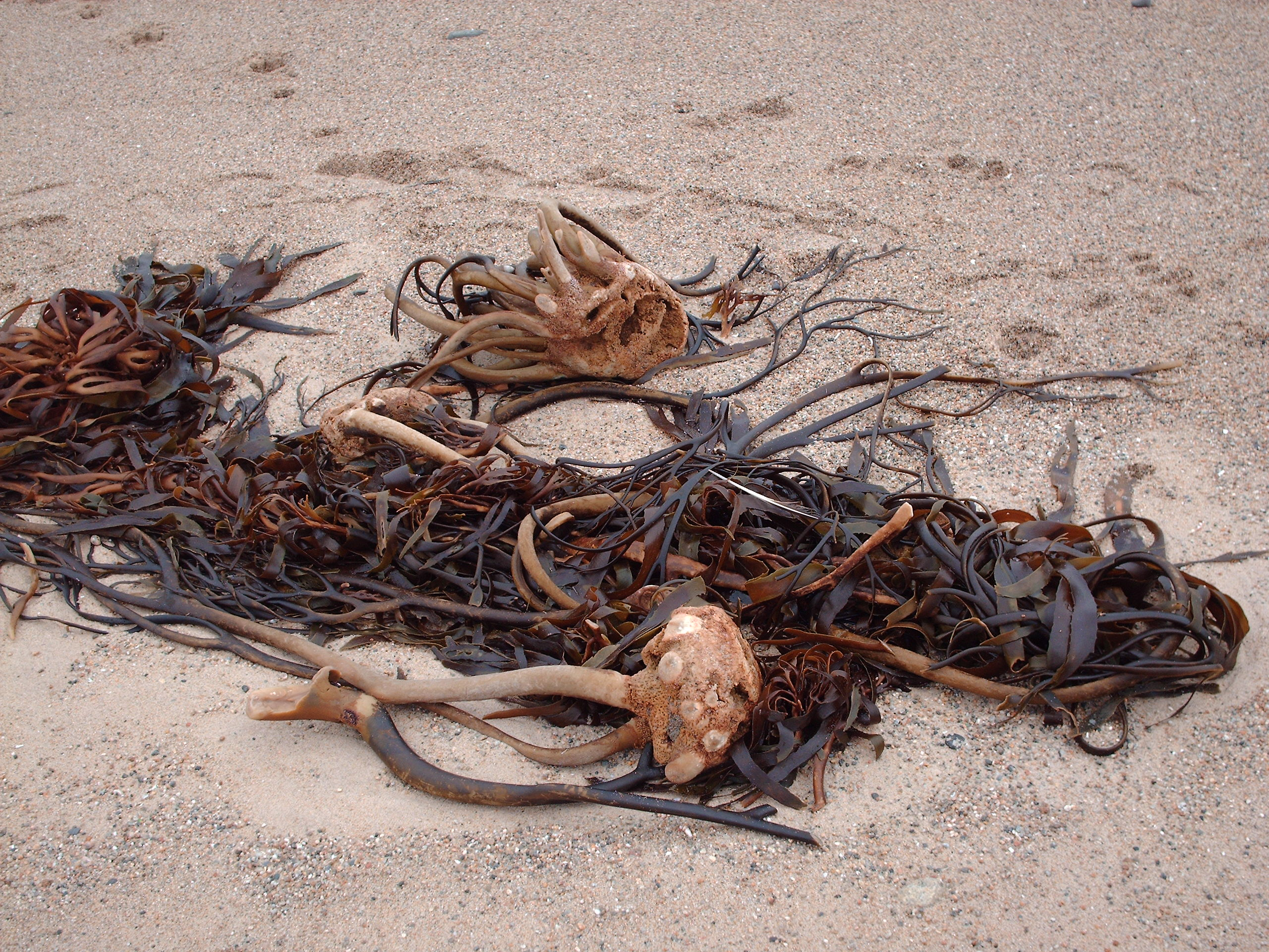 Macrocystis pyrifera Lessonia nigrescens at El Quisco beach